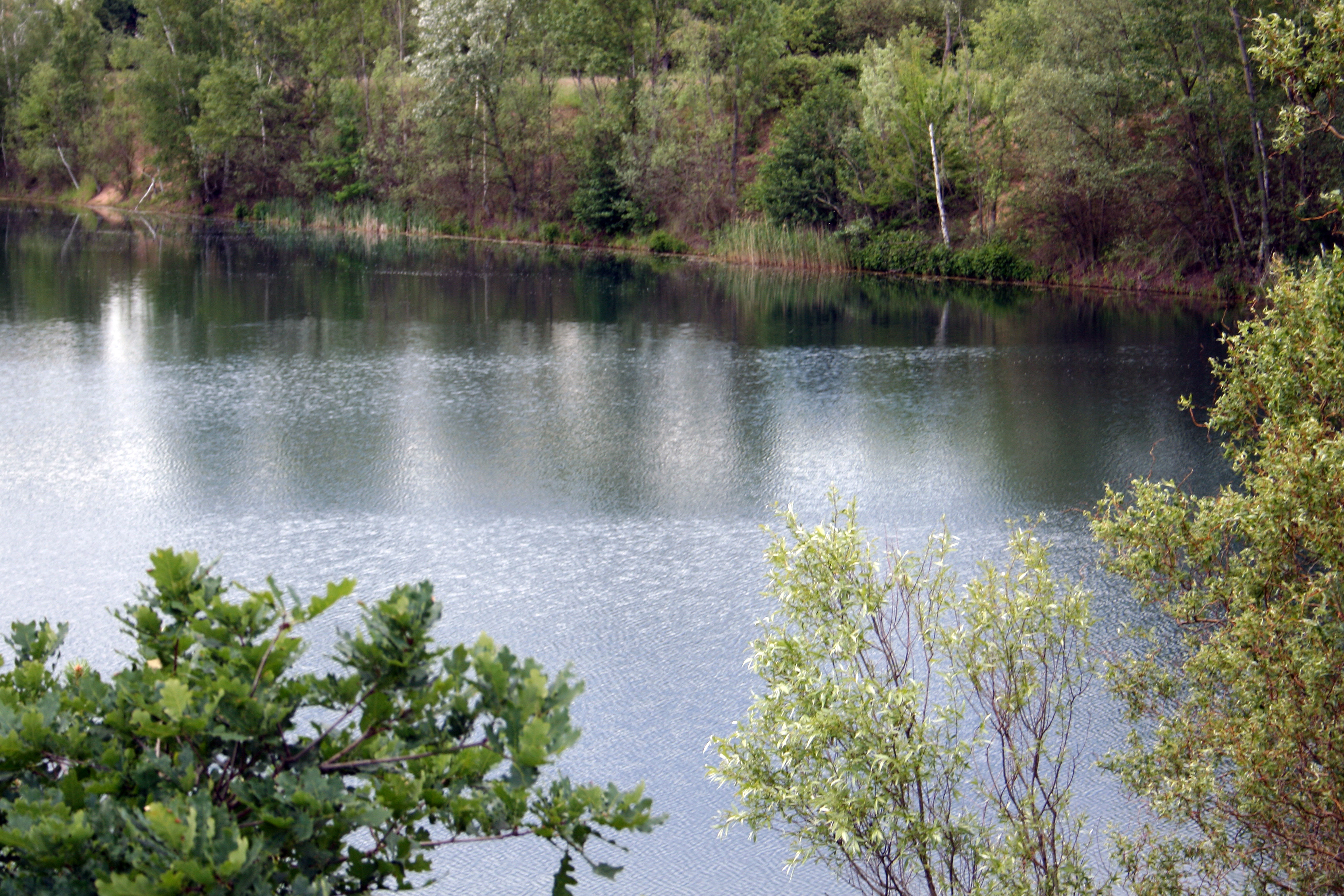 Schwanheimer Düne, an about 140 acre large dune in the inland and a nature reserv, originated 10,000 years ago, Schmitt'sche Grube, a former pit and now a lake